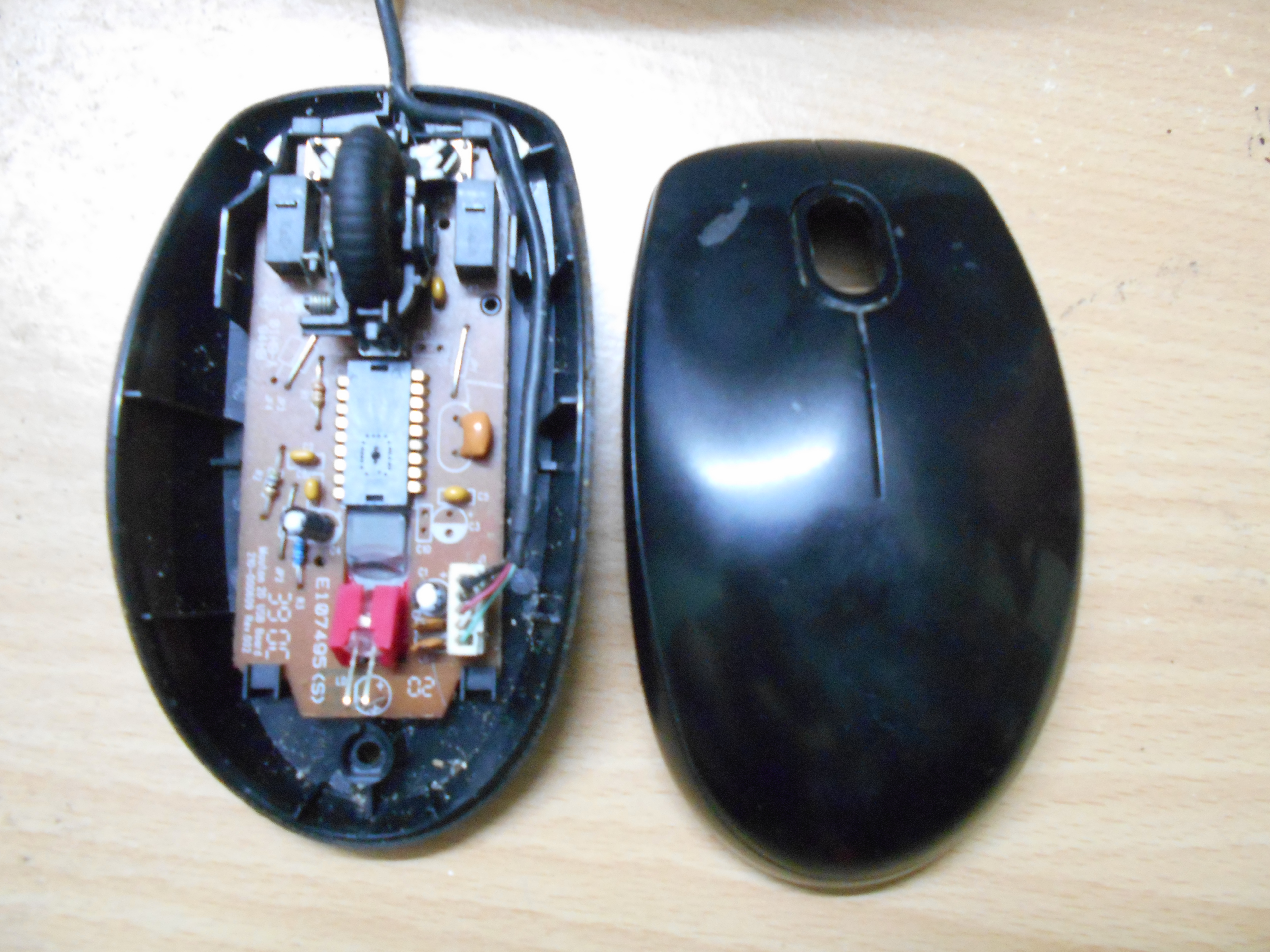 parts of an optical computer mouse